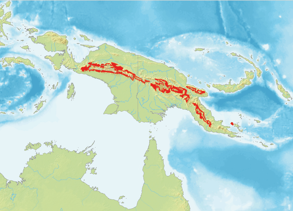 Map of the approximate distribution of Boelen's Python (Morelia boeleni), based on: C. C. Austin, M. Spataro, S. Peterson, J. Jordan, J. D. McVay: Conservation genetics of Boelen’s python (Morelia boeleni) from New Guinea: reduced genetic diversity and divergence of captive and wild animals. Conservation Genetics 11, 2010, S. 889-896. This is a derivate work of a blank map originating from This image is in the public domain because it came from the site and was released by the copyright holder. Permission is granted to copy, distribute and/or modify this map since it is based on free of copyright images from: See also approval email on de.wp and its clarification.